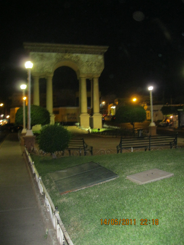 arch of the millennium of Tepatitlan